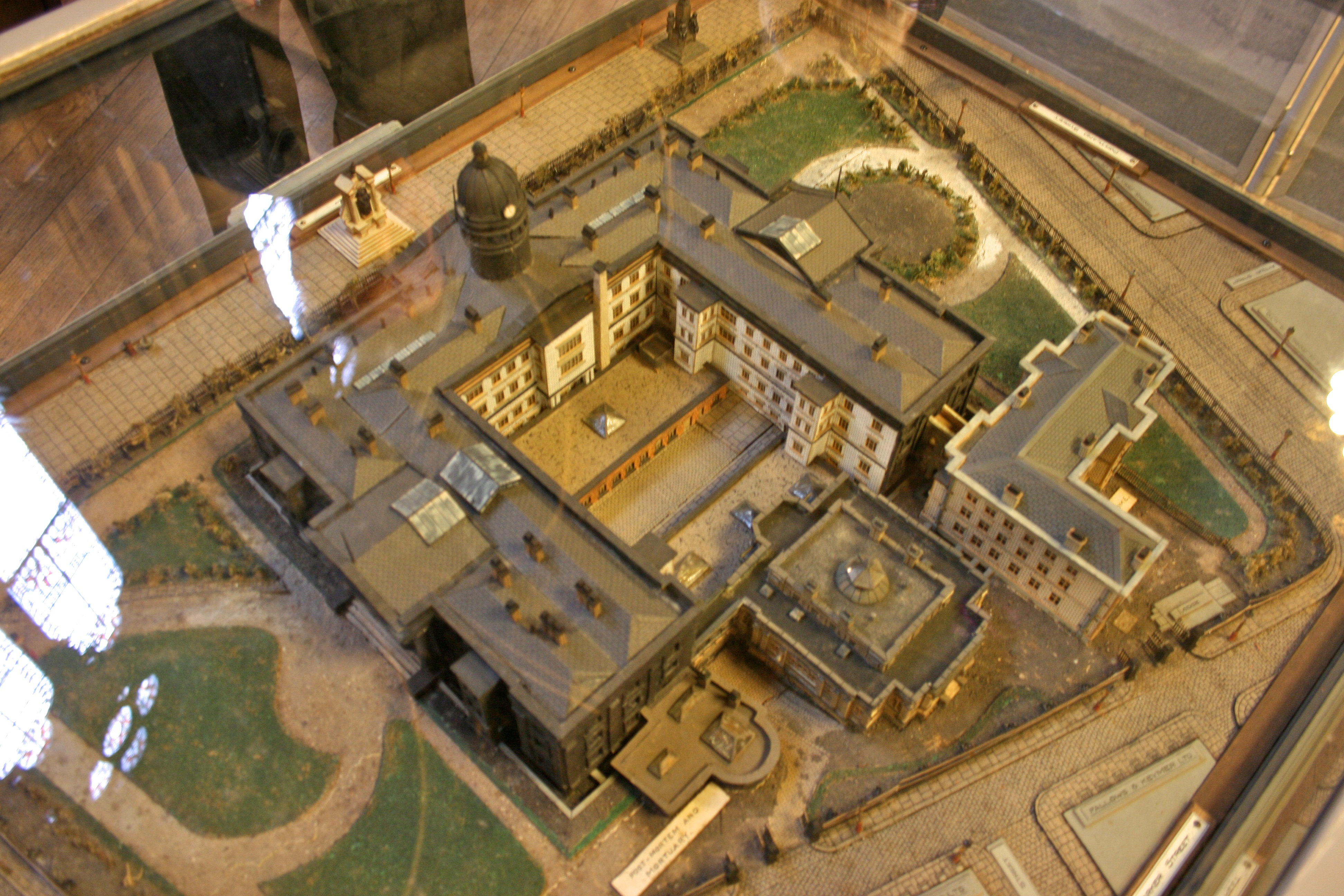 Model of the former Manchester Royal Infirmary. Temporarily on display in the Manchester Town Hall.